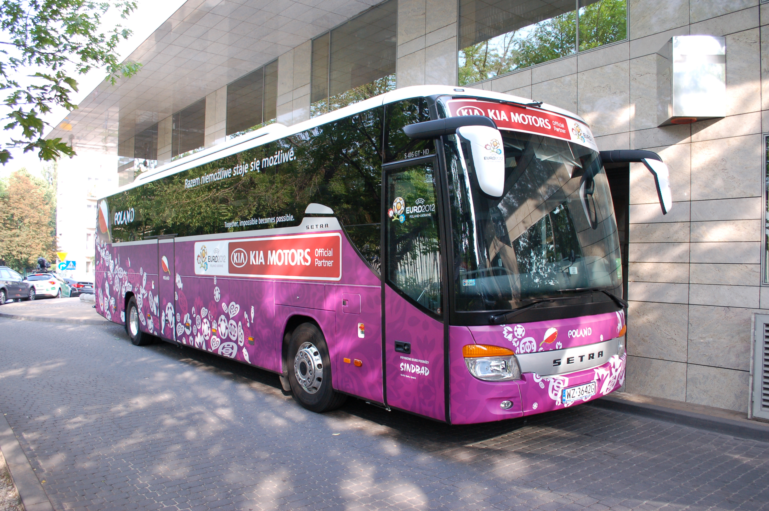 Polish national team bus for Euro 2012. Setra S416 GT-HD/2 coach (reg. WZ 3642G) in Warsaw, Poland. Built 2012, Sindbad Opole operator.